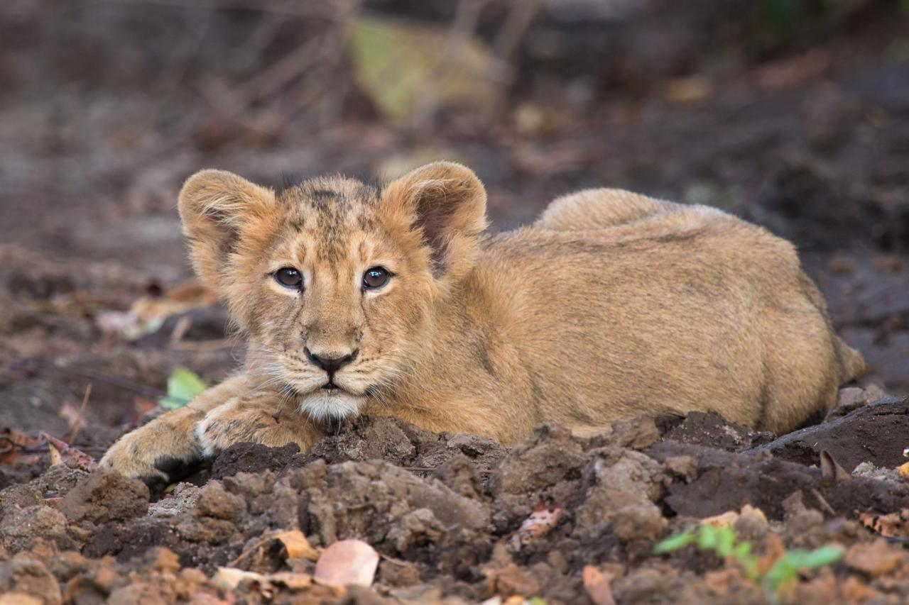 A solitary lion cub in Gir forest